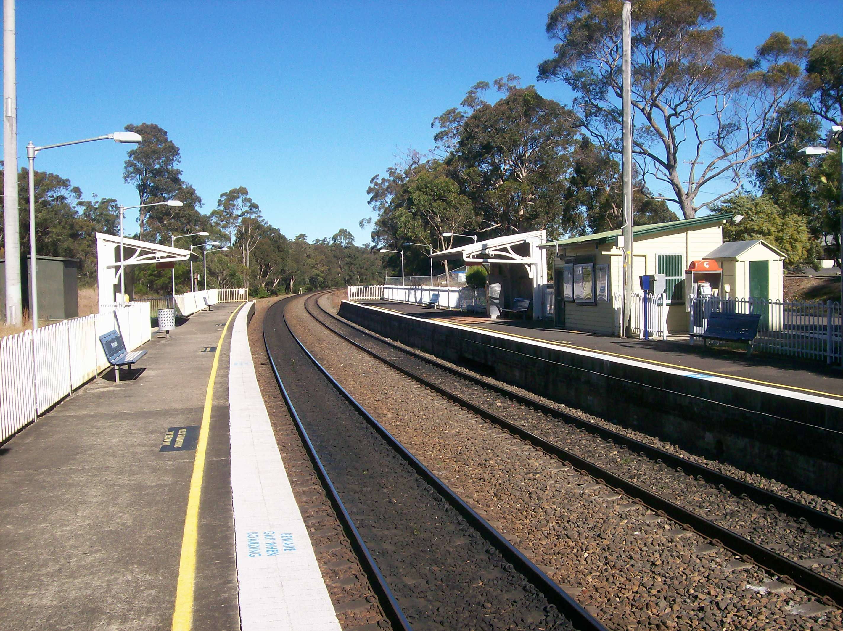 Yerrinbool Railway Station